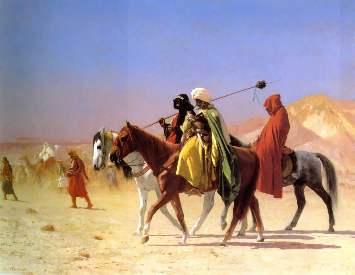 Arabs Crossing the Desert